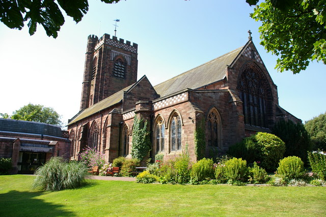 St Mary's parish church, Dalton-in-Furness, Cumbria, seen from the east